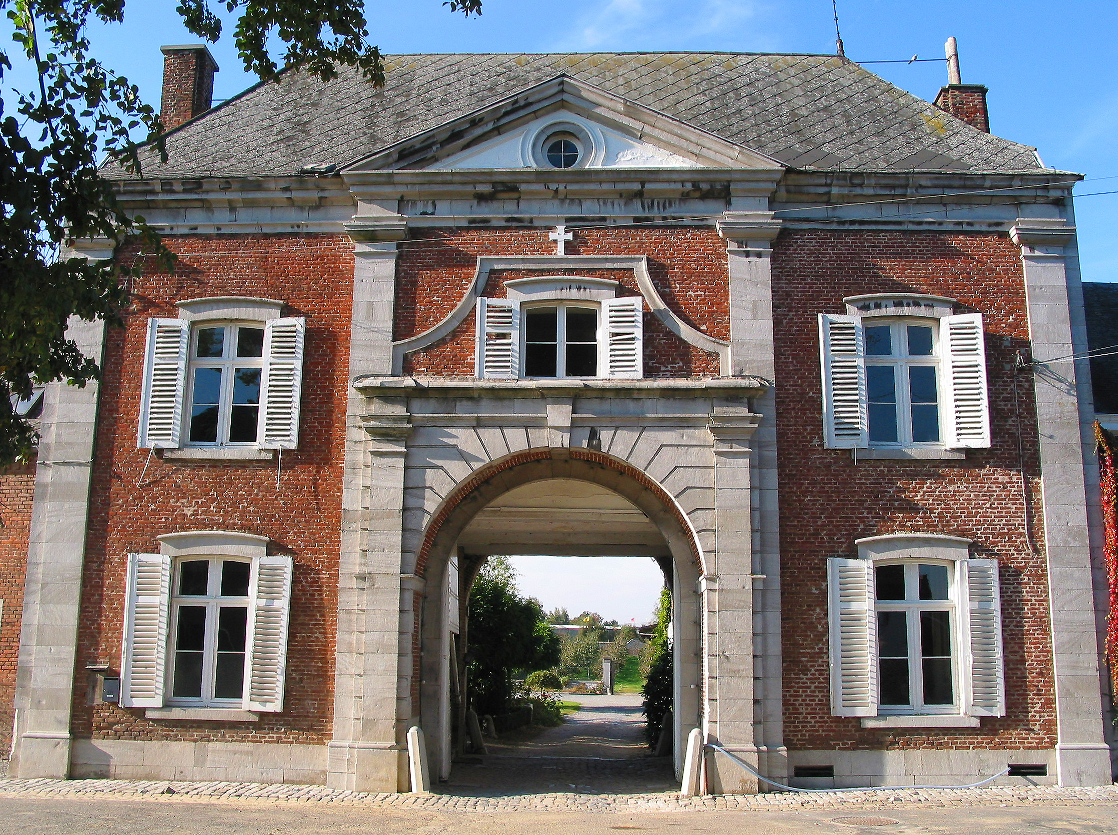 Lens-Saint-Remy (Belgium), the Carmel – Former beguine convent founded in 1343.